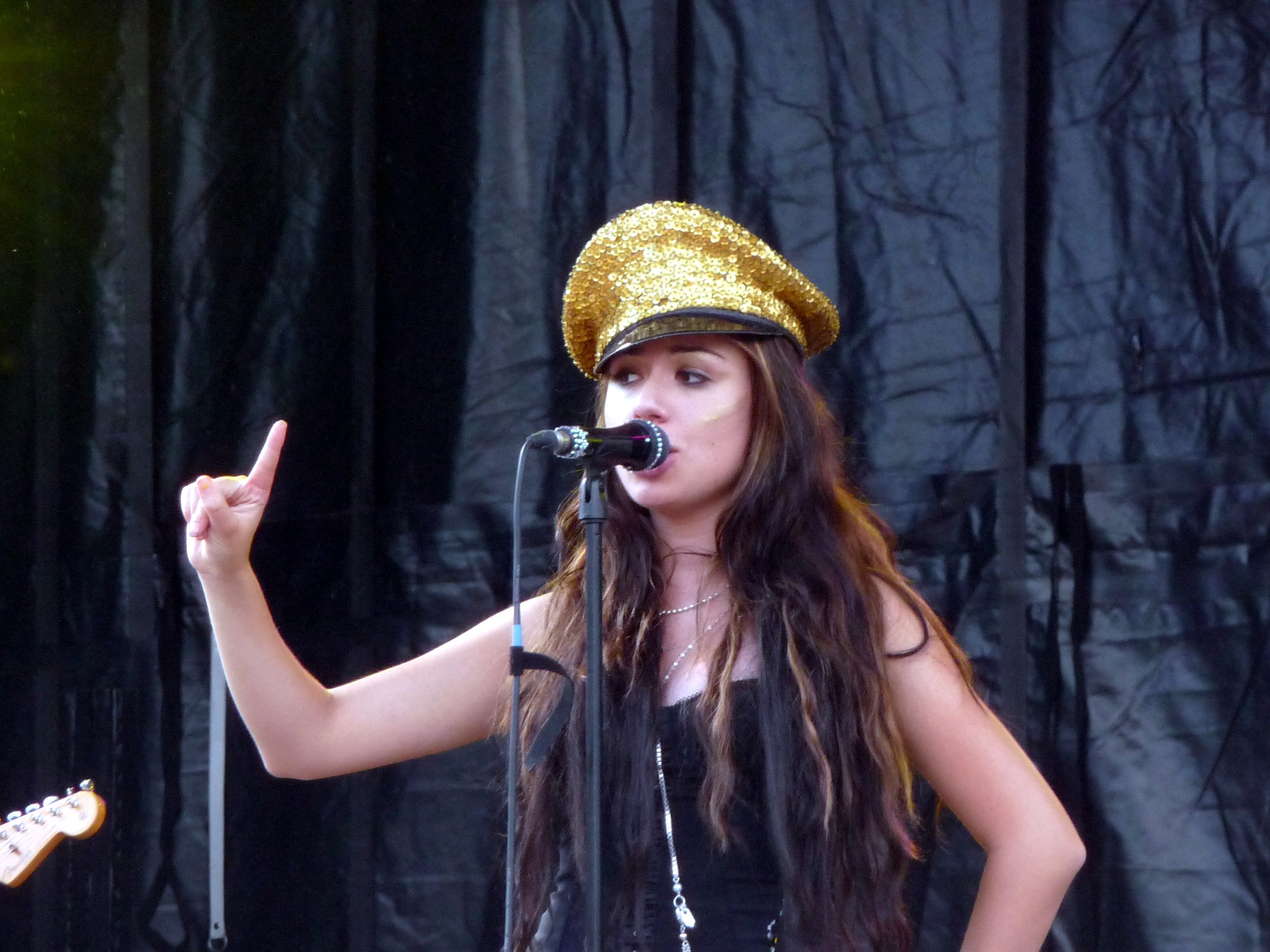 Gabriella Cilmi at the 2009 Furia Sound Festival (Cergy-Pontoise, Val-d'Oise, France).